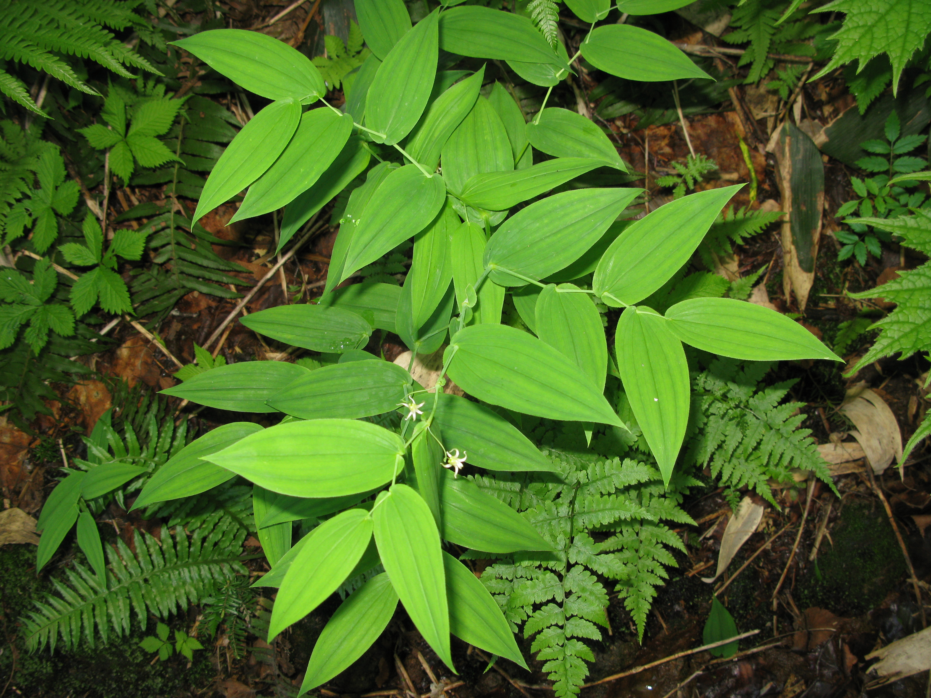 Streptopus amplexifolius, Mount Hiuchigatake, Fukushima pref., Japan